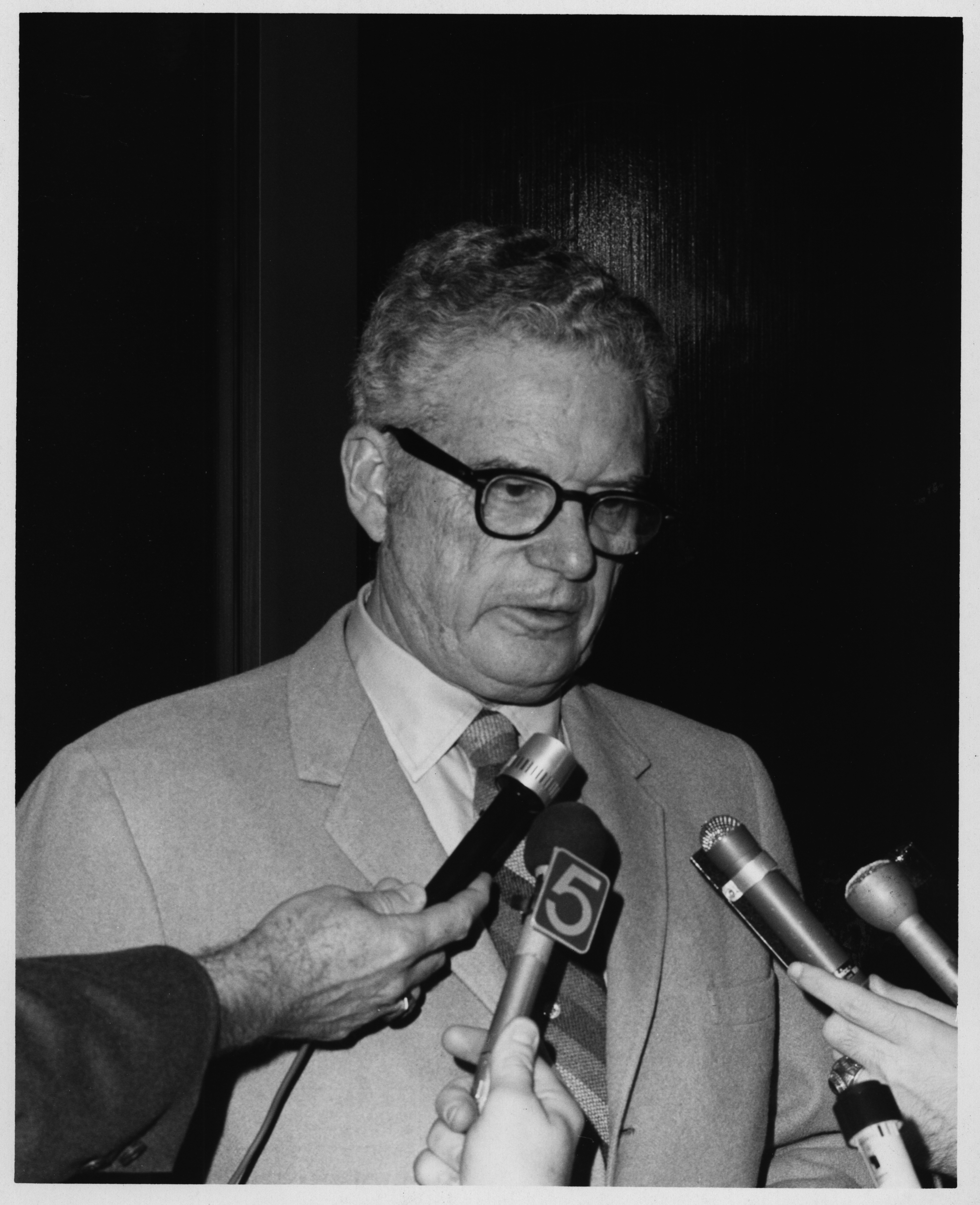 James E. Boyd (scientist), acting president of the Georgia Institute of Technology, speaking to reporters. Given his time in office, it is most likely near his decision to fire Bud Carson.